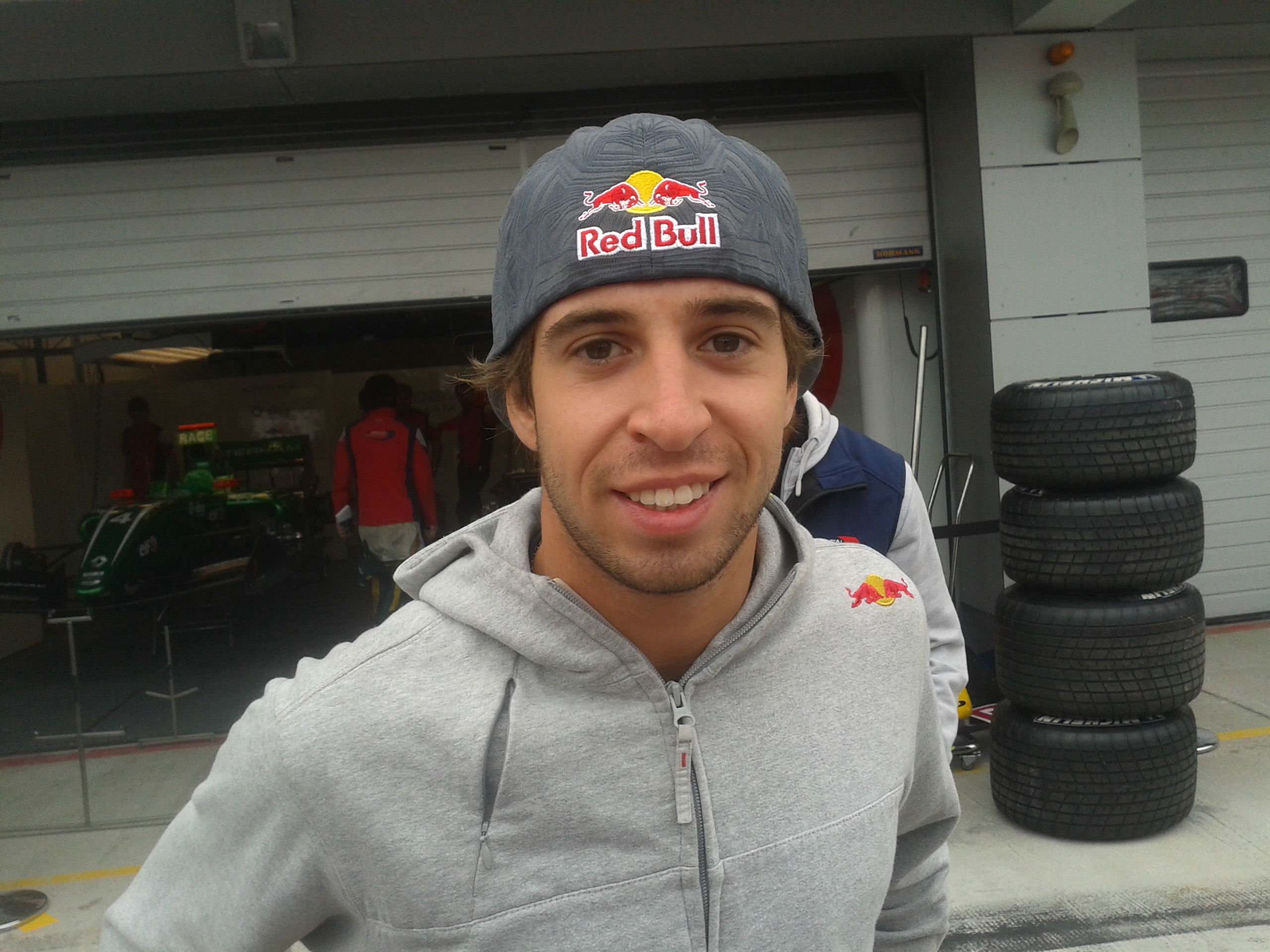 António Félix da Costa at Moscow Raceway, 22 June 2013